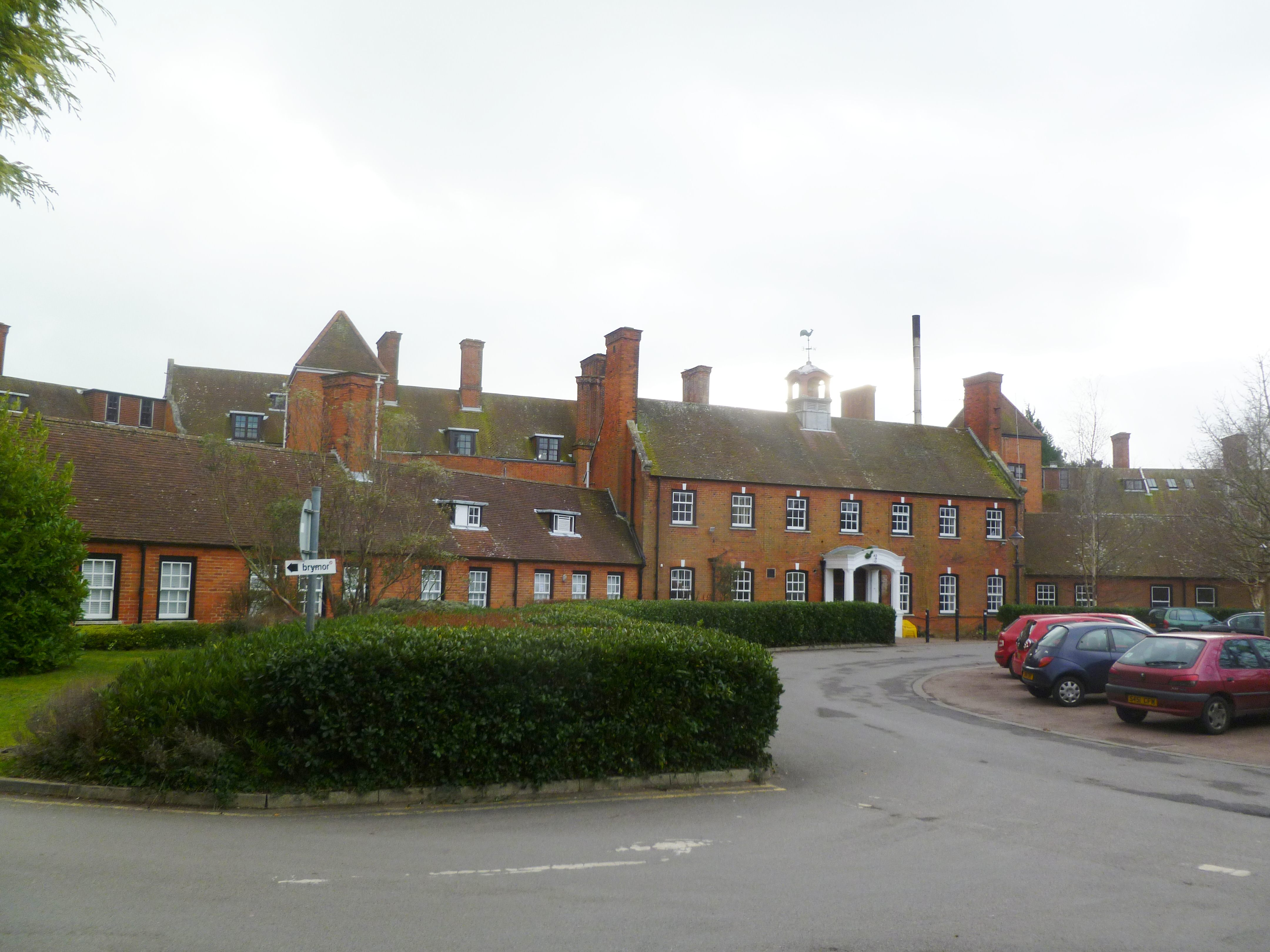 St Anne's Hospital